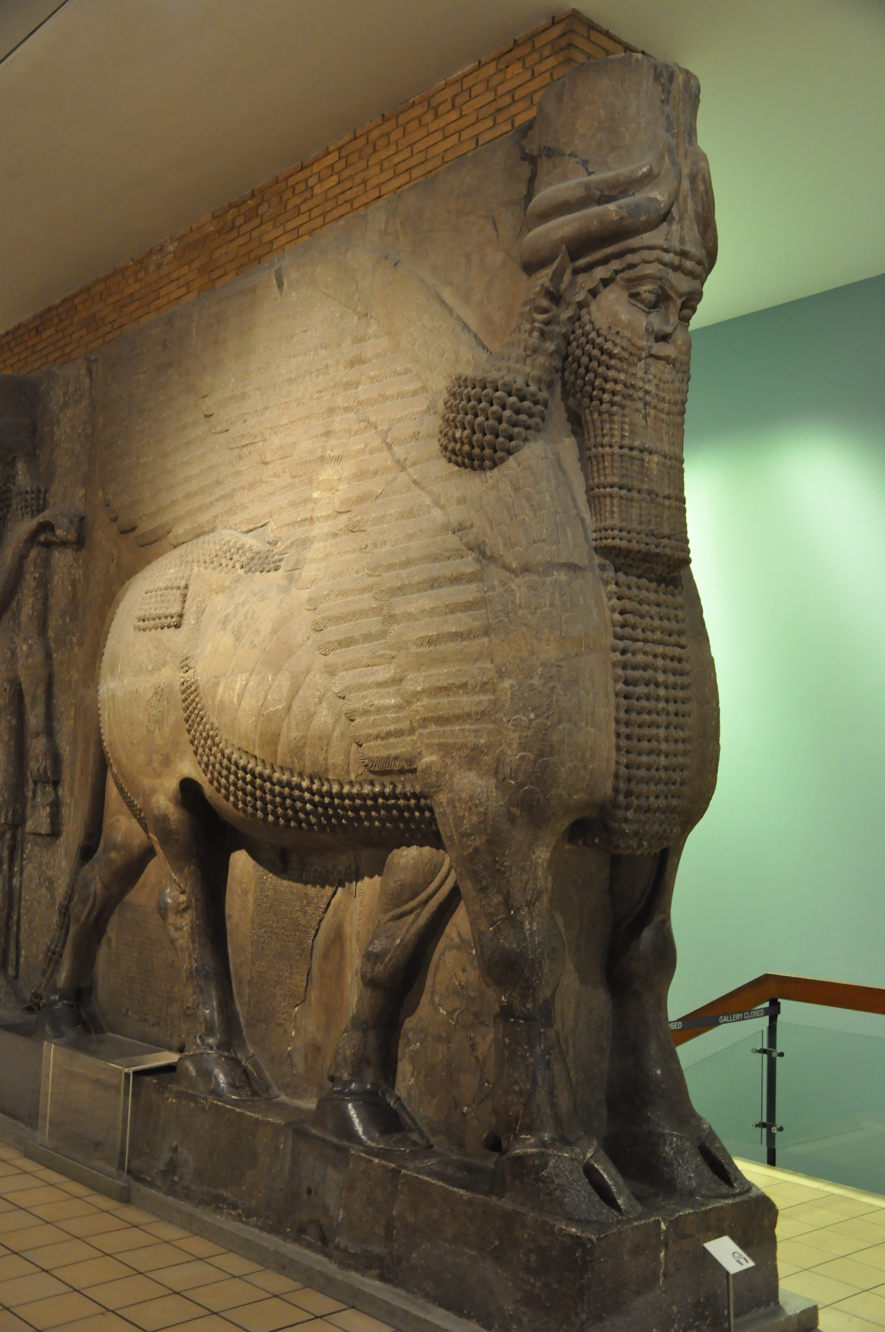 British Museum